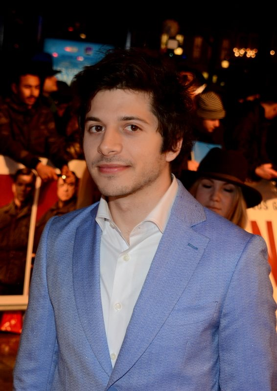 Dimitri Leonidas in Paris at the French premiere of "The Monuments men"